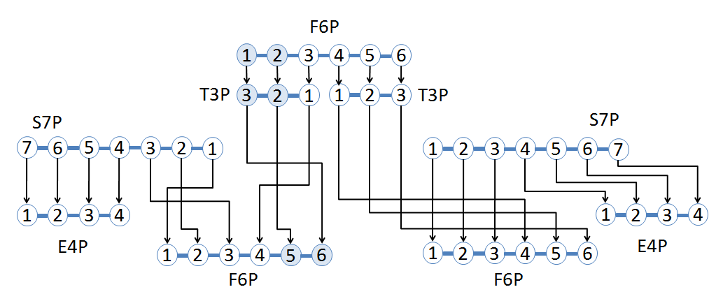 Glycolysis